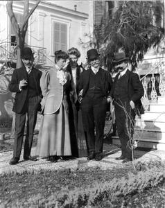 Periklis Hazilazarou and his wife Efrosini and two Greek diplomats